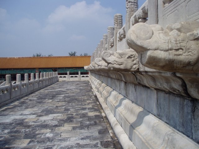 These water spouts, located in the central portion of Beijing's Forbidden City, allow rain to flow naturally from higher points to drains on the lower levels.